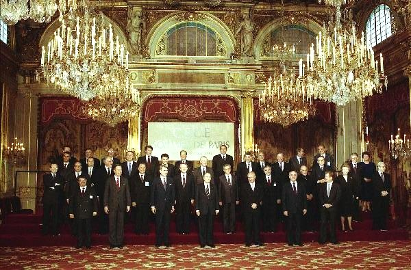 n 21 November 1990, the Paris Summit of the Conference on Security and Cooperation in Europe (CSCE) decides on how to institutionalise the CSCE and adopts the Paris Charter for a New Europe. Text of George Bush Presidential Library and Museum: President Bush joins other world leaders for the Conference on Security and Cooperation in Europe class photo, Salles des Fetes, Palais de L'Elyses, Paris, France.